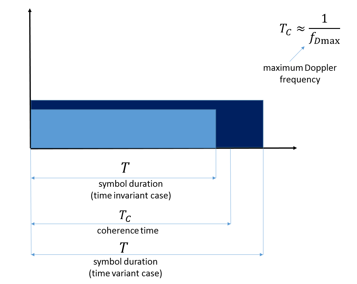 An illustration of the coherence time concept.